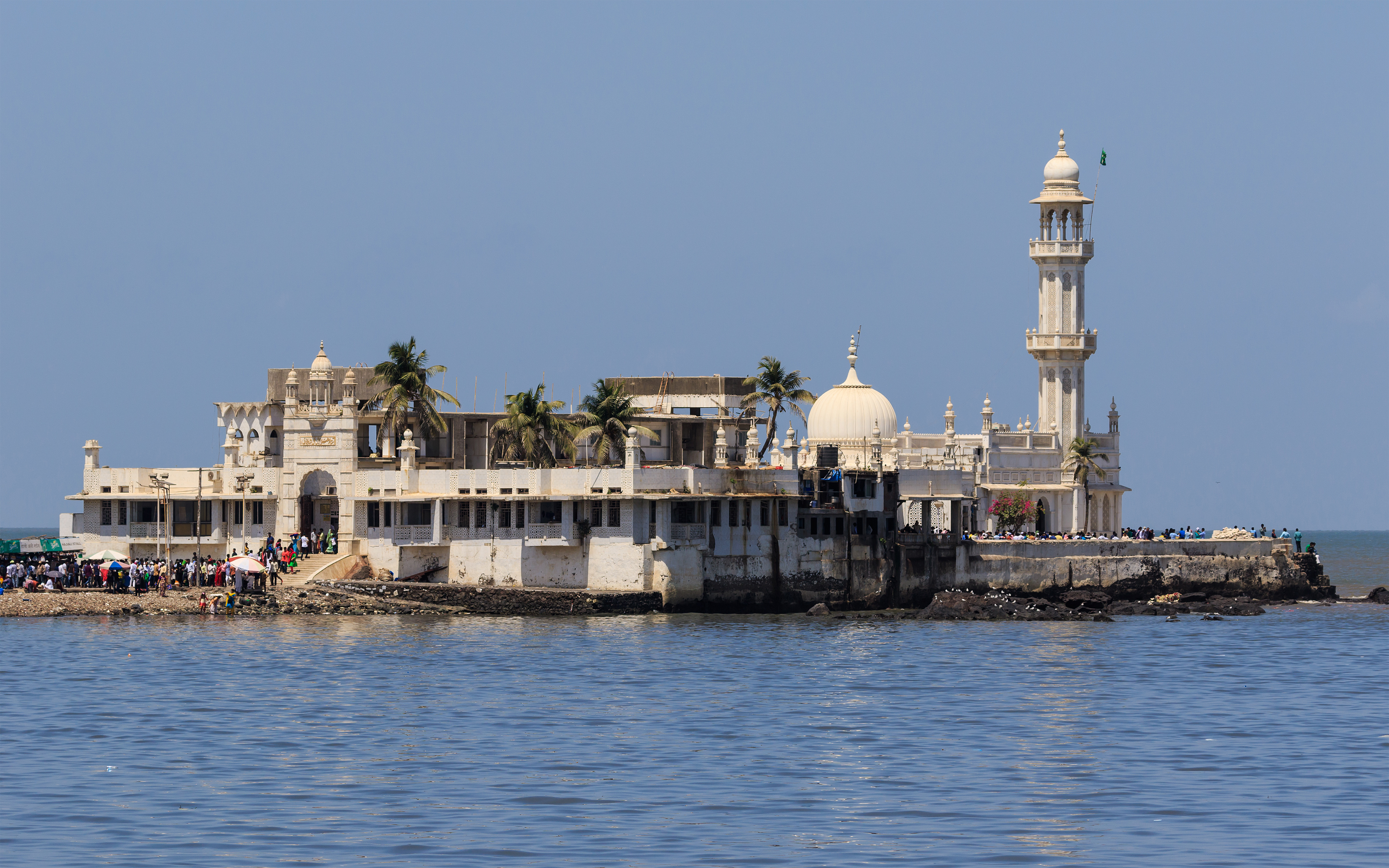 Haji Ali Dargah Mosque in Mumbai, India